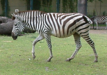 A zebra, Equus burchelli boehmi